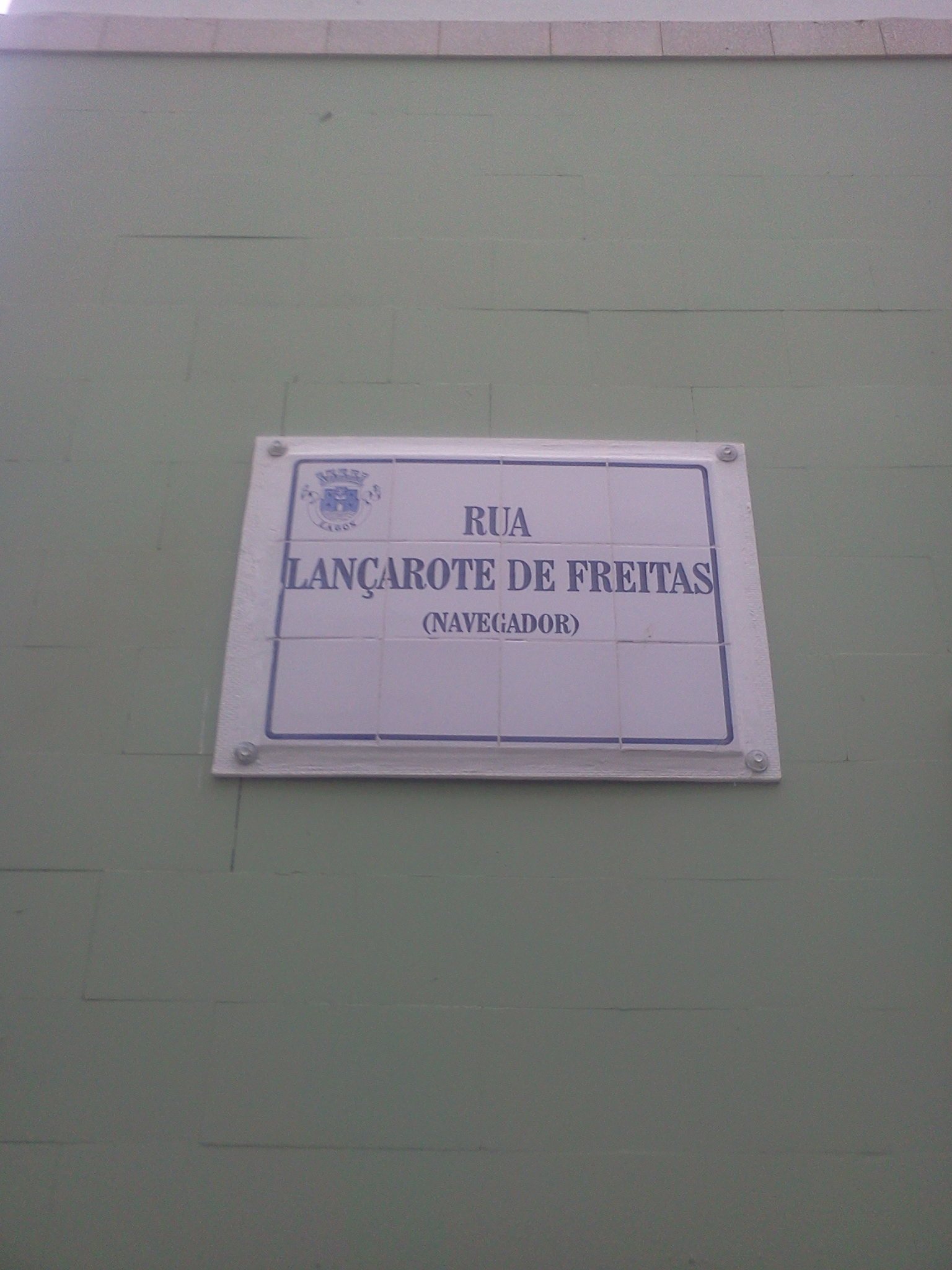 Street sign of Rua Lançarote de Freitas, in the city of Lagos, in southern Portugal.